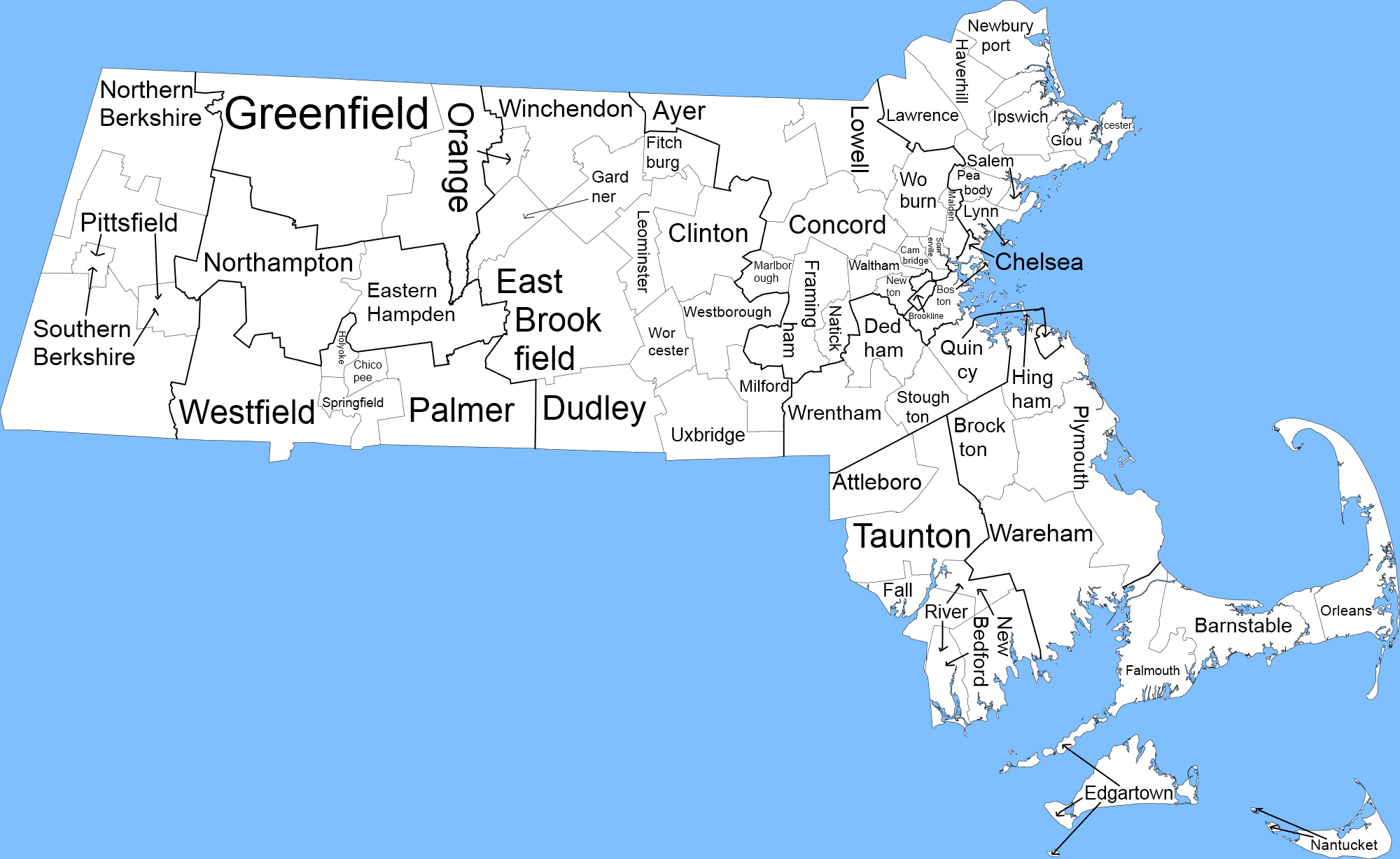 Map of Massachusetts judicial districts